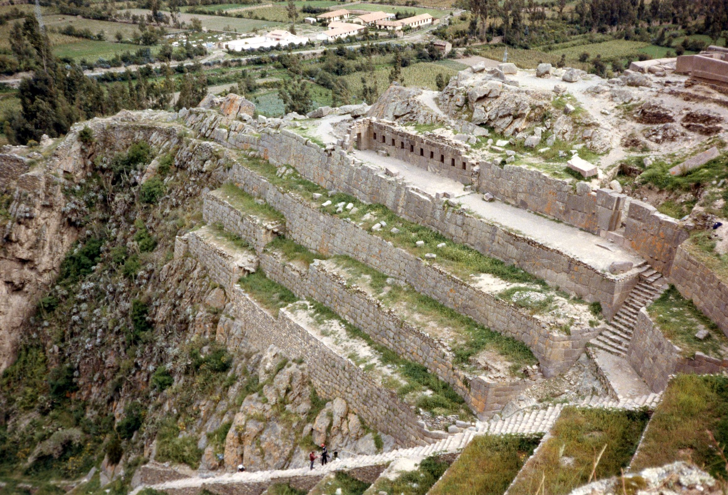 Inca site of Ollantaytambo, Peru